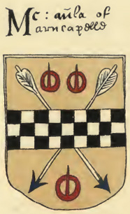 An image of the a coat of arms of "Mc: aula of Arncapelle" (Macaulay of Ardincaple).